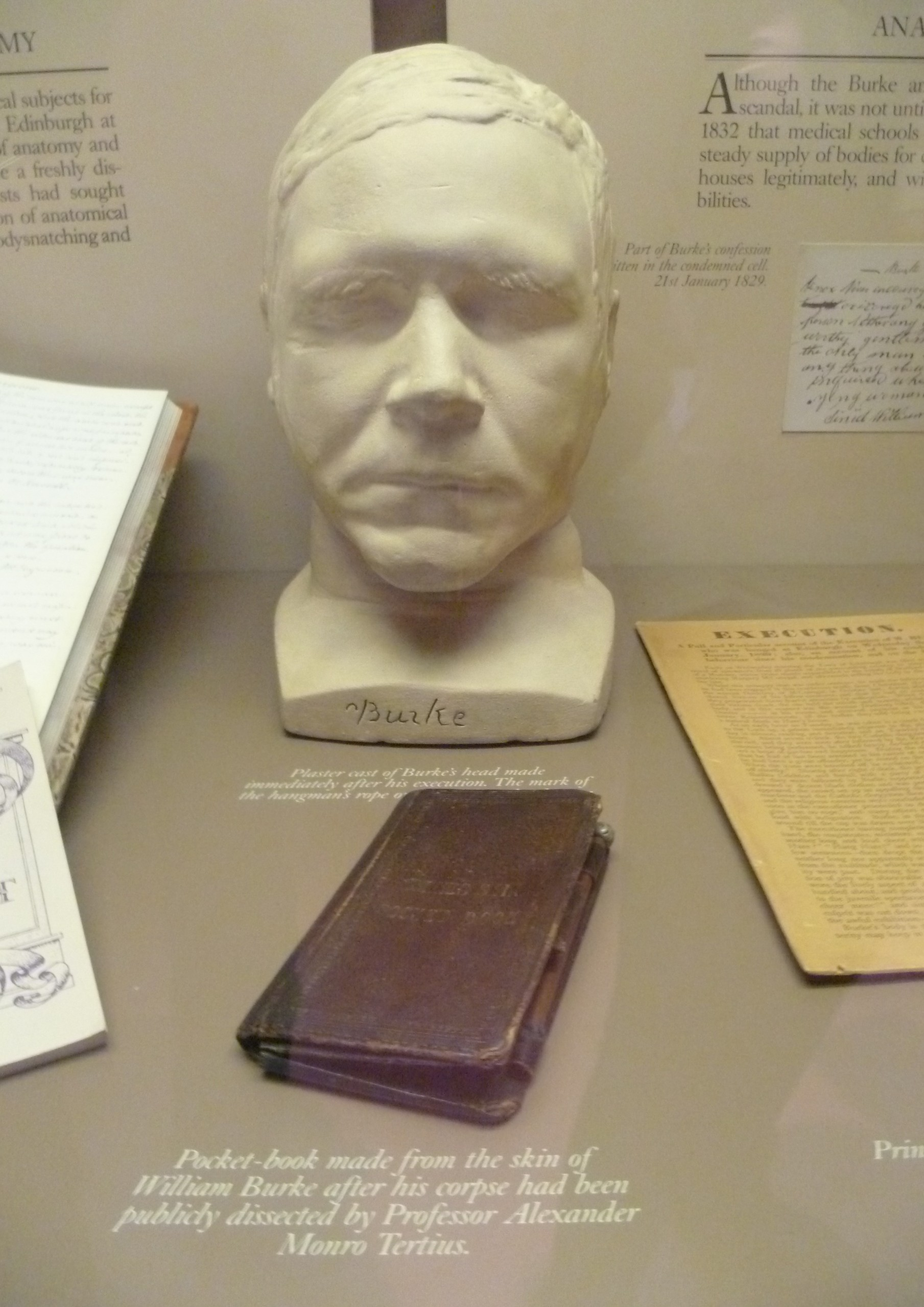 William Burke's death mask and pocket book, Surgeons' Hall Museum, Edinburgh